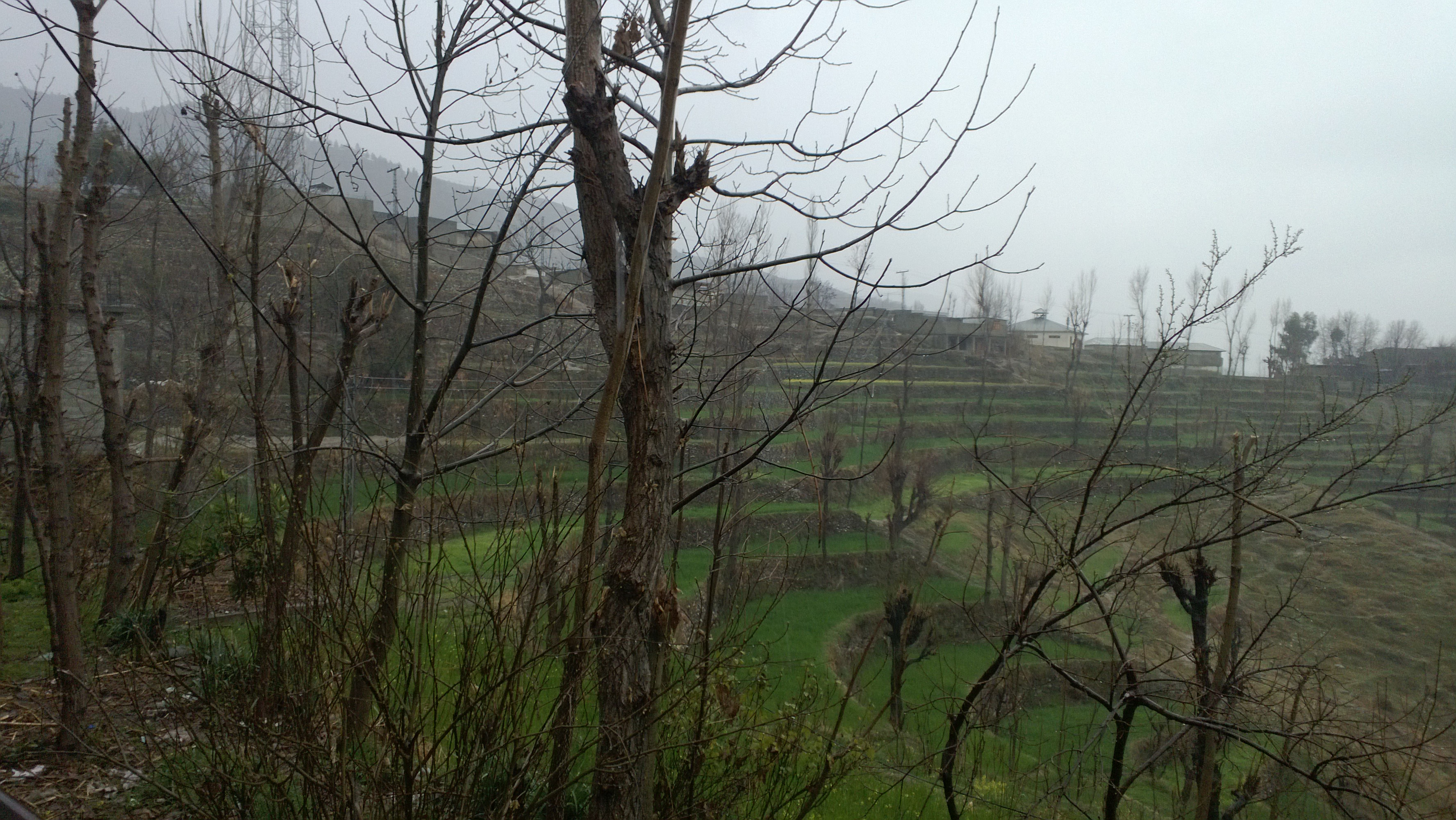 Terraces of village Darora, Upper Dir District, KPK